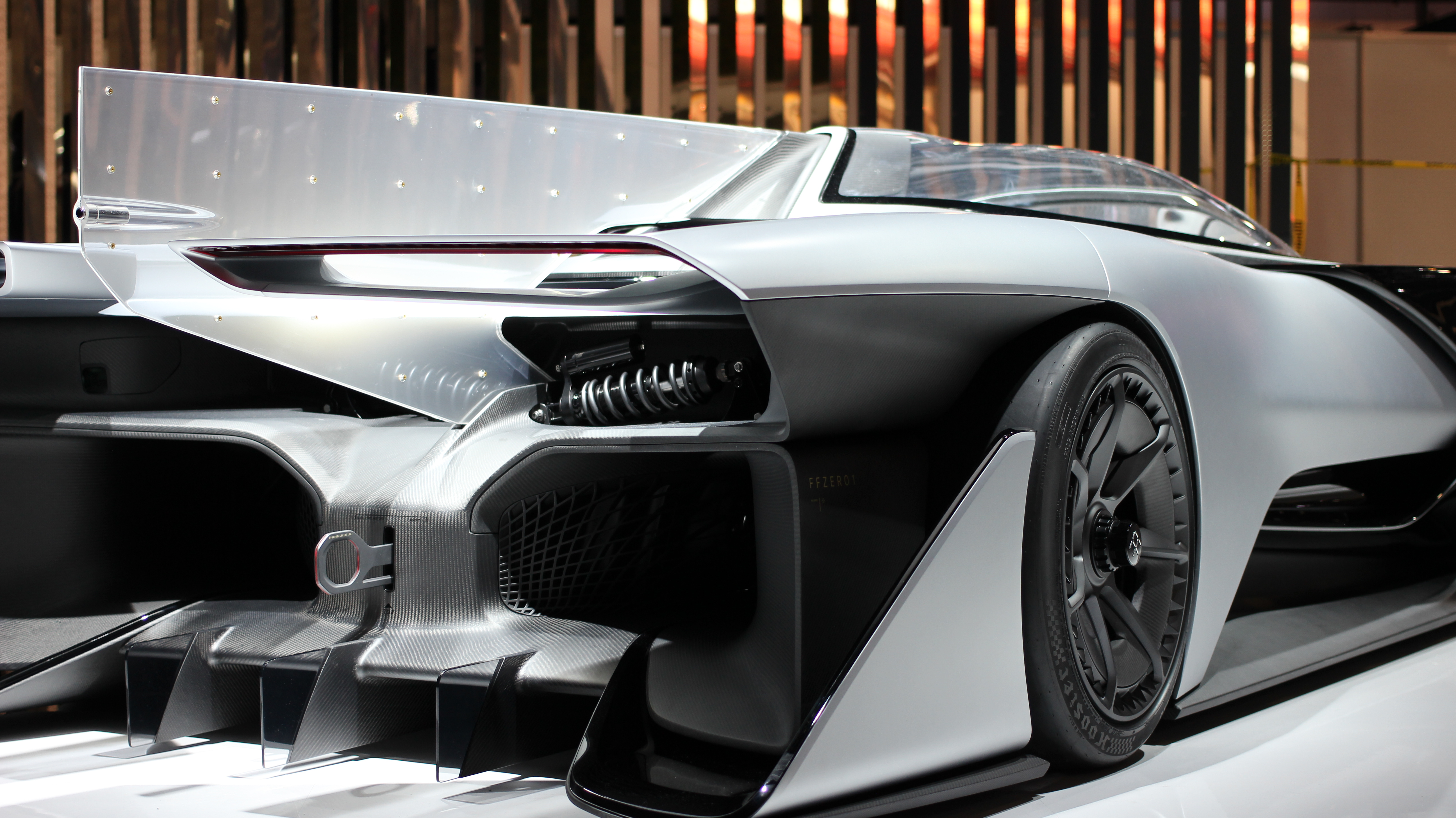 Faraday Future FFZERO1 Concept Prototype